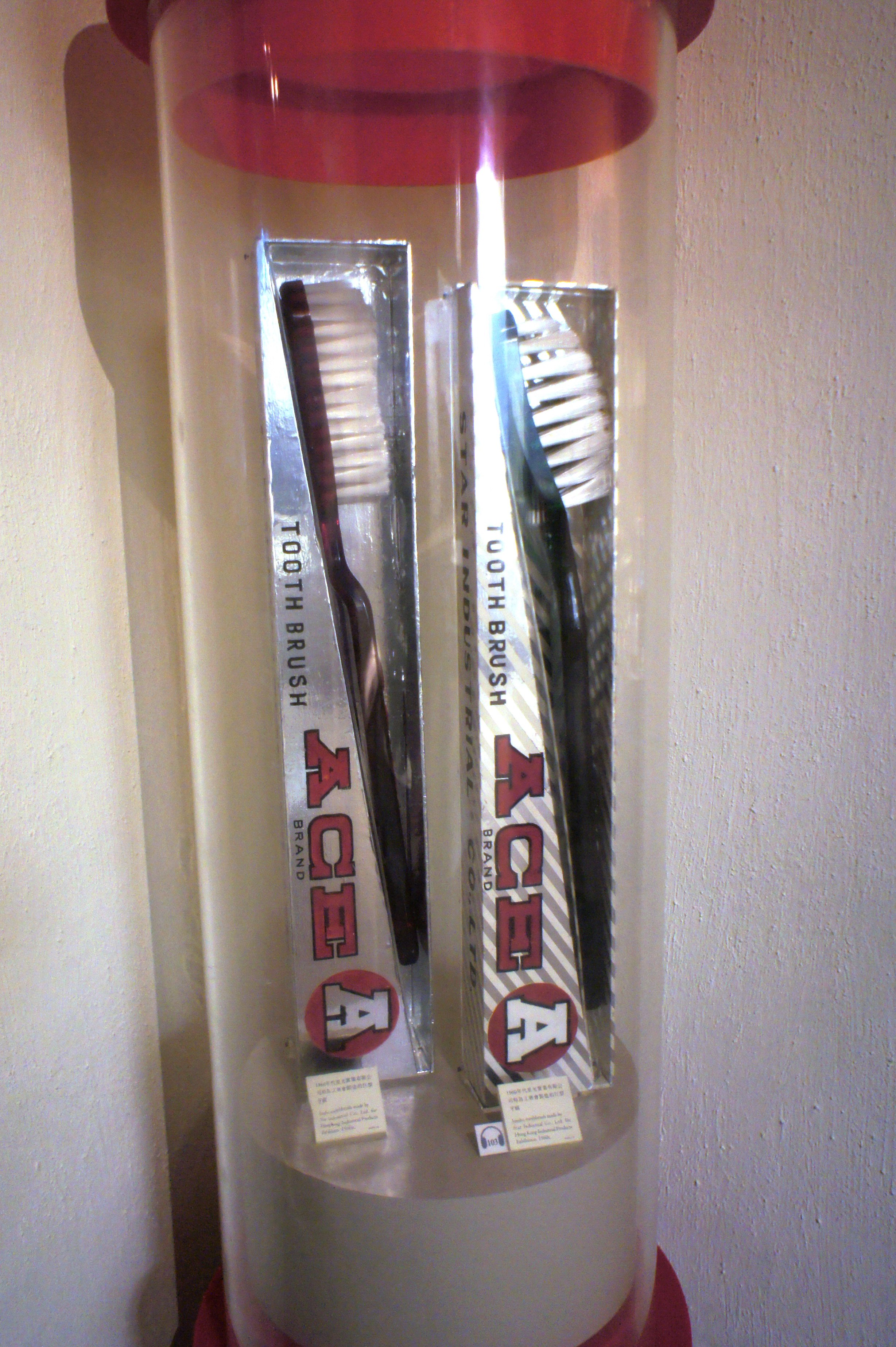 Jumbo toothbrush made by Star Industrial Co., Ltd. for Hong Kong Industrial Products Exhibition, 1960s. A permanent exhibit of "The Hong Kong Story" at the Hong Kong Museum of History.